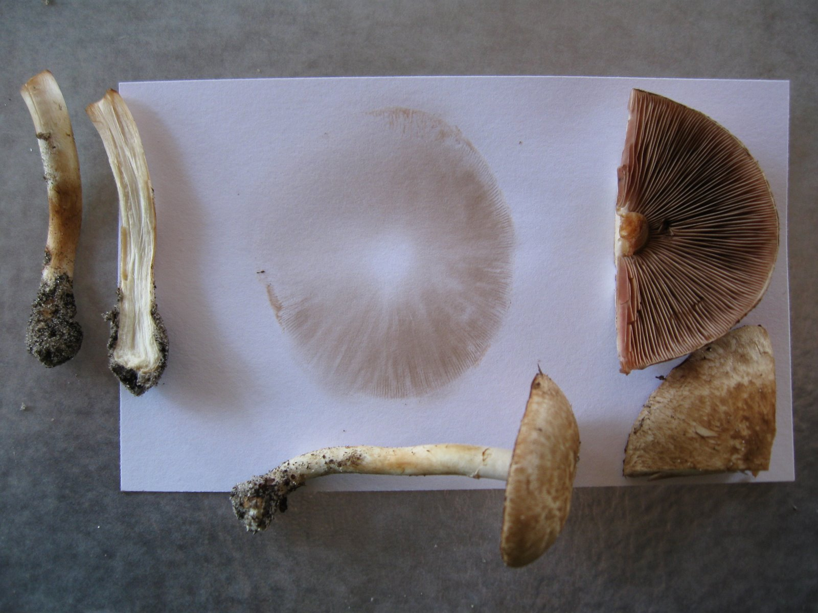 This is a spore-print and cross-sectional view of Agaricus semotus. The card is 3 x 5 inches.